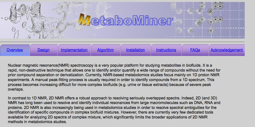 MetaboMiner website